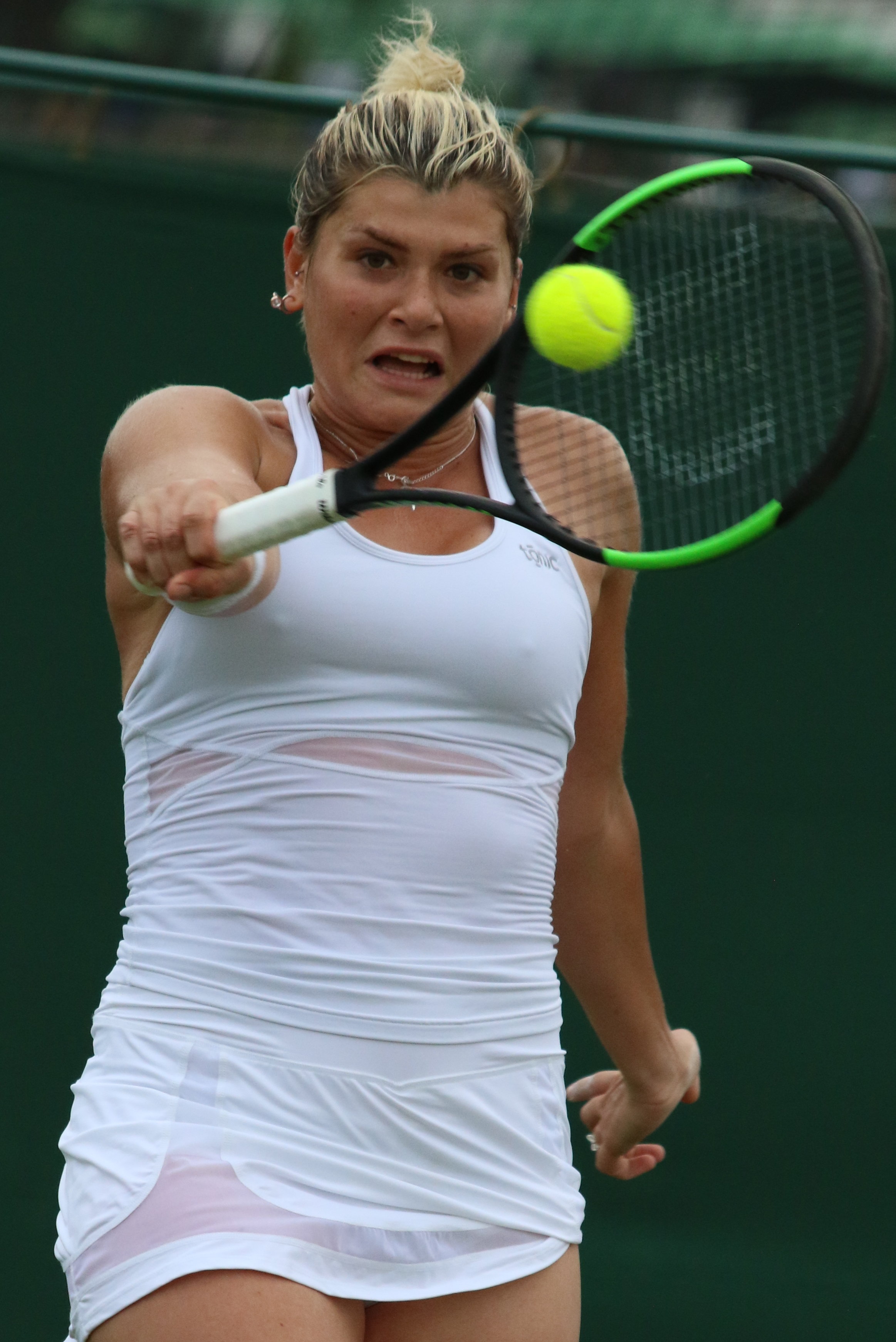 2019 Wimbledon Qualifying Tournament.